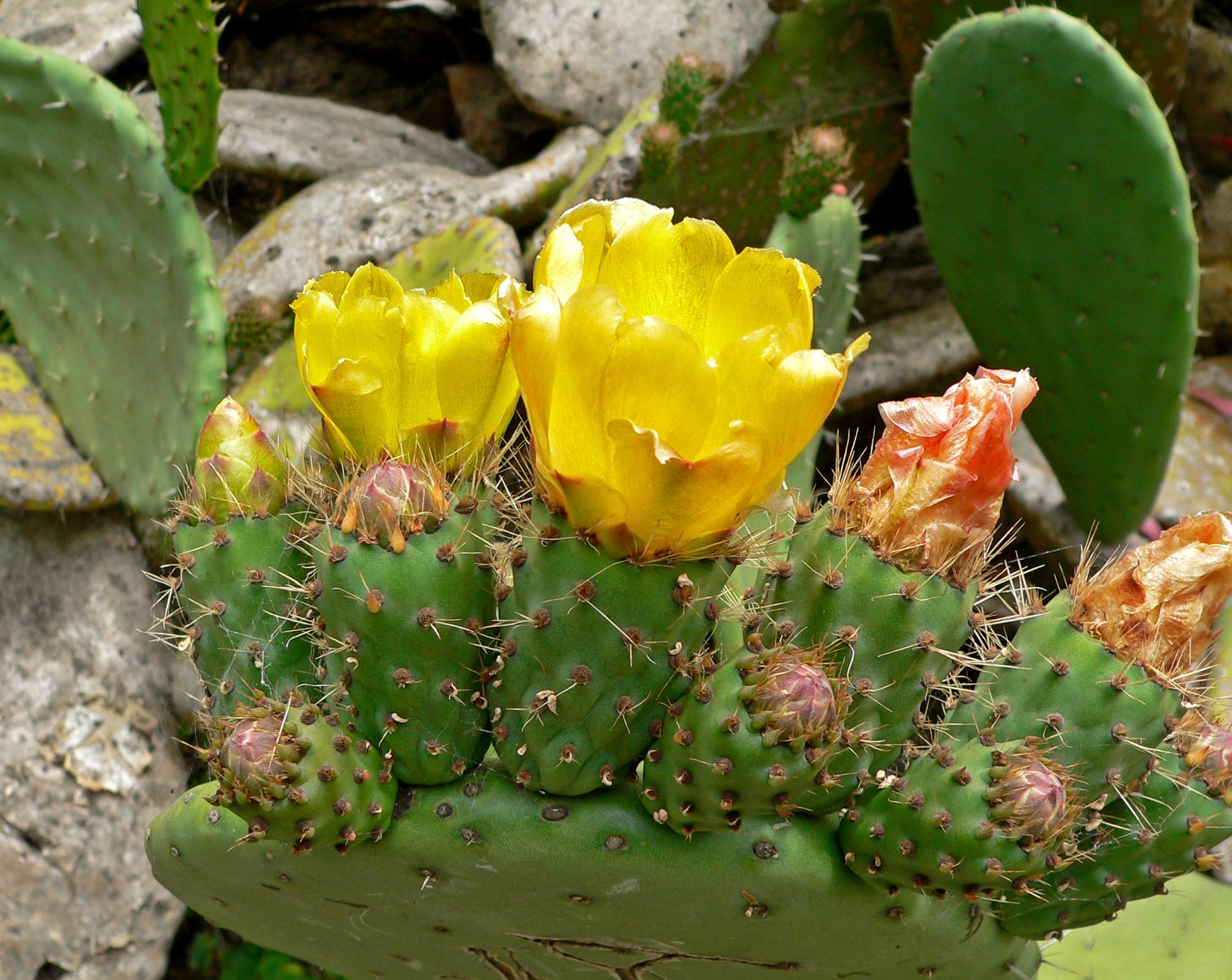 Photo of Opuntia ficus-indica at the San Francisco Botanical Garden